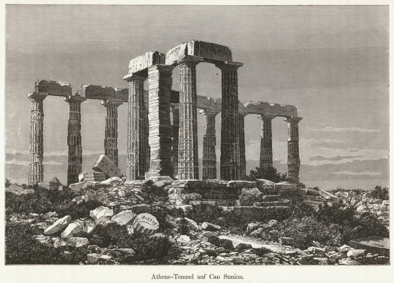 Amand Schweiger von Lerchenfeld. Griechenland in Wort und Bild, Eine Schilderung des hellenischen Konigreiches, Leipzig, Heinrich Schmidt & Carl Günther, 1887